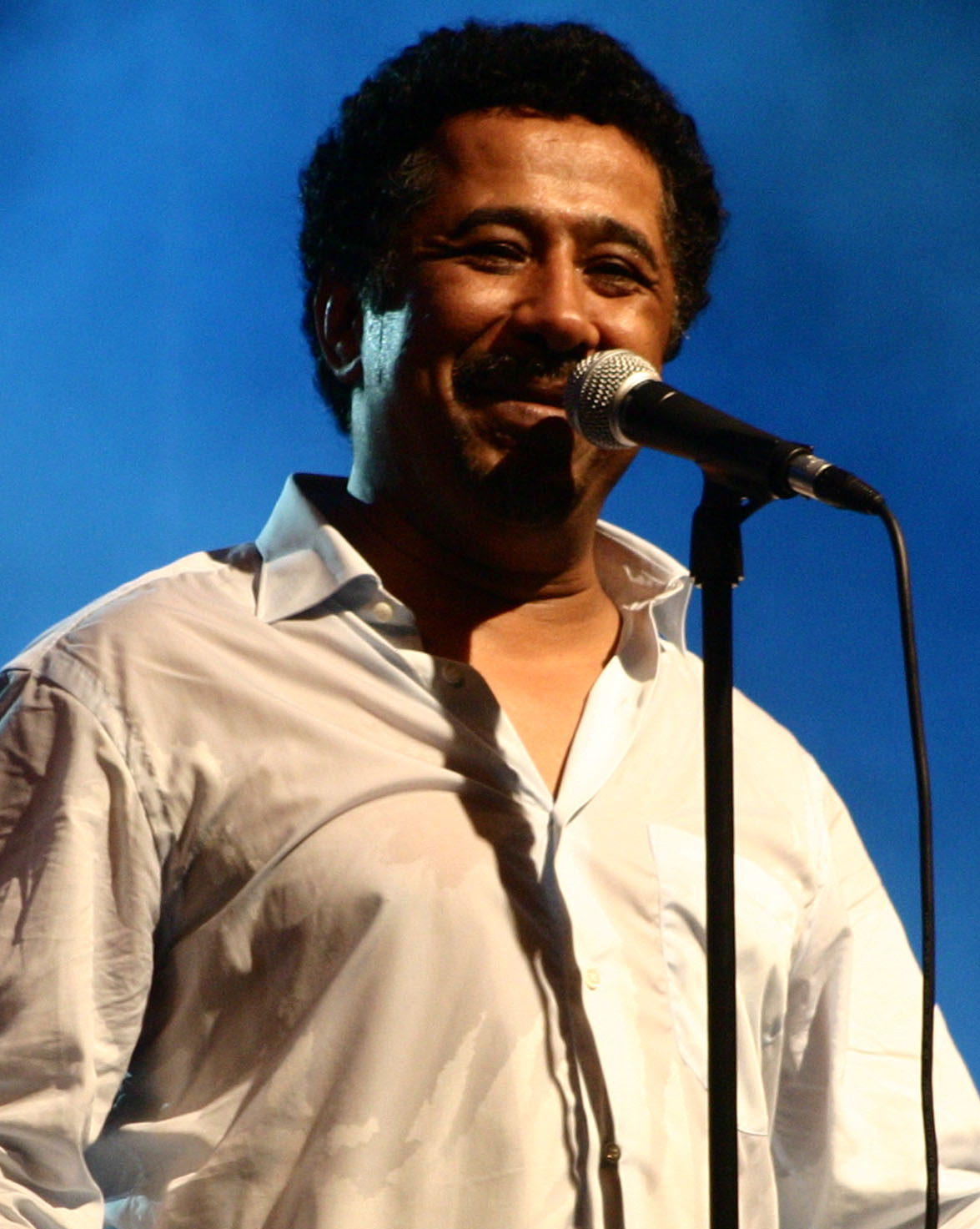 [Nazim Fethi] Cheb Khaled performed in Oran on July 5th. الشاب خالد أحيا حفلة موسيقية في وهران يوم الخامس من يوليو Cheb Khaled s'est produit à Oran le 5 juillet.